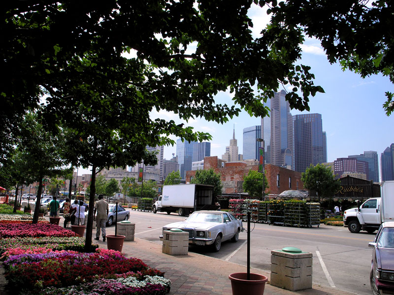 Downtown skyline from the Farmers Market of Dallas, Texas (USA)